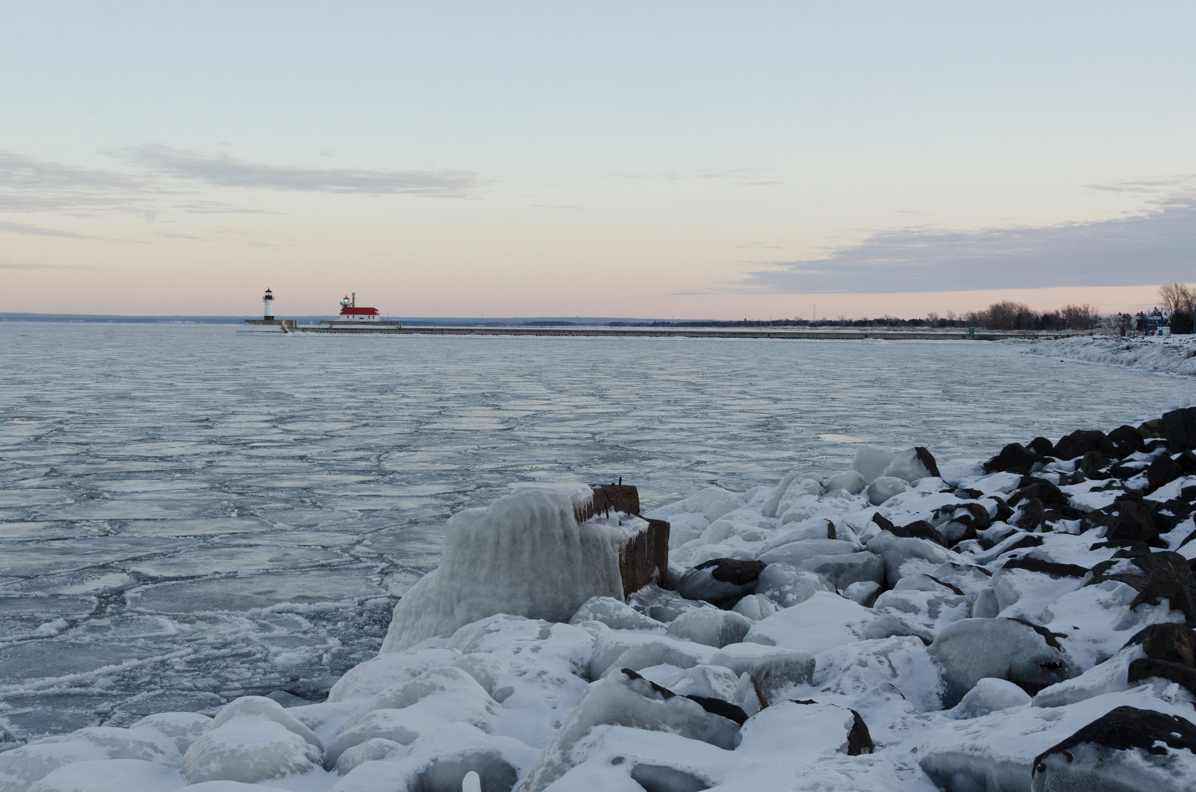 Duluth Harbor Entrance in February